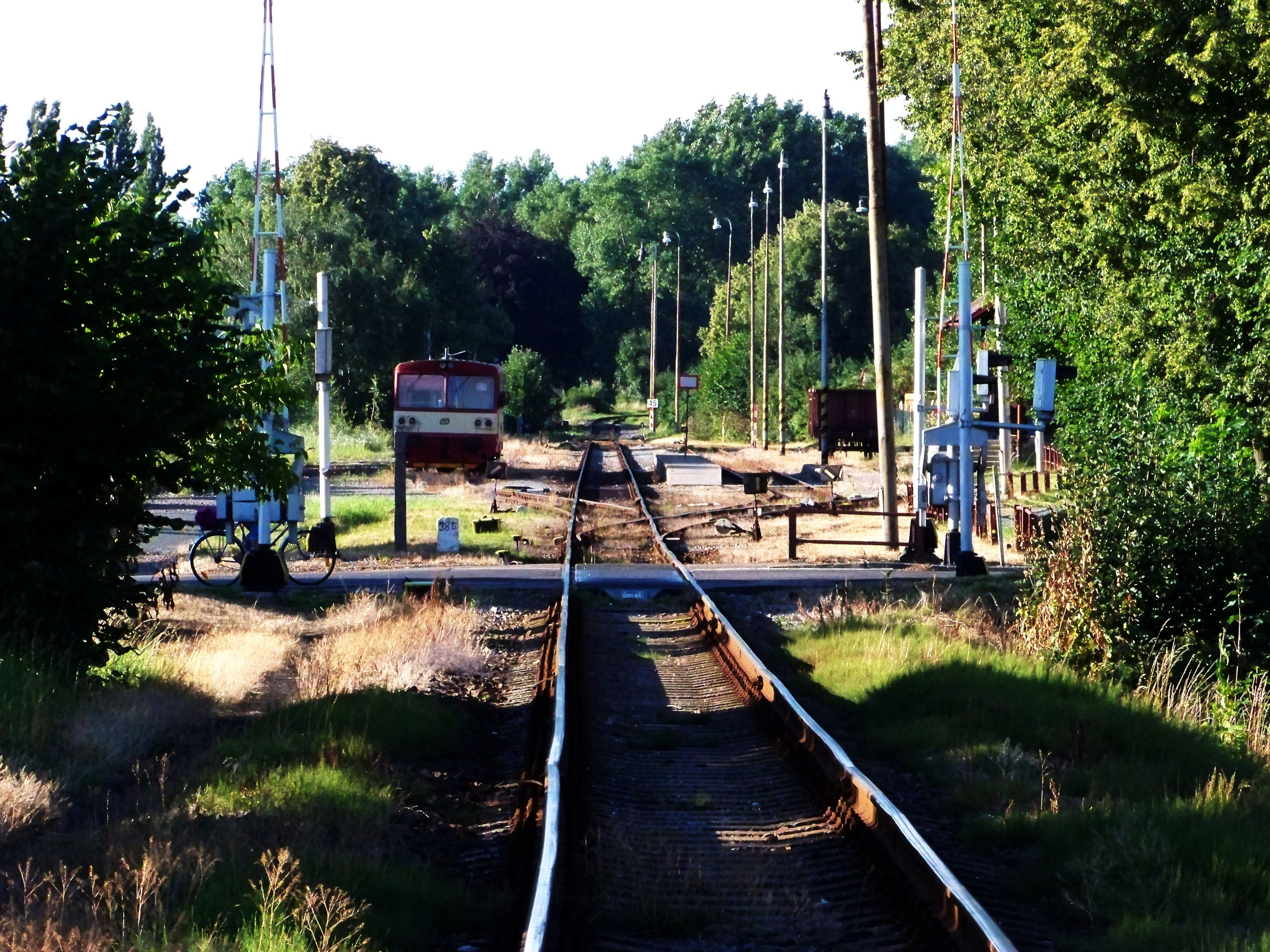 Holice, Pardubice District, Pardubice Region, the Czech Republic. Train station Holice, seen from Josefská street.